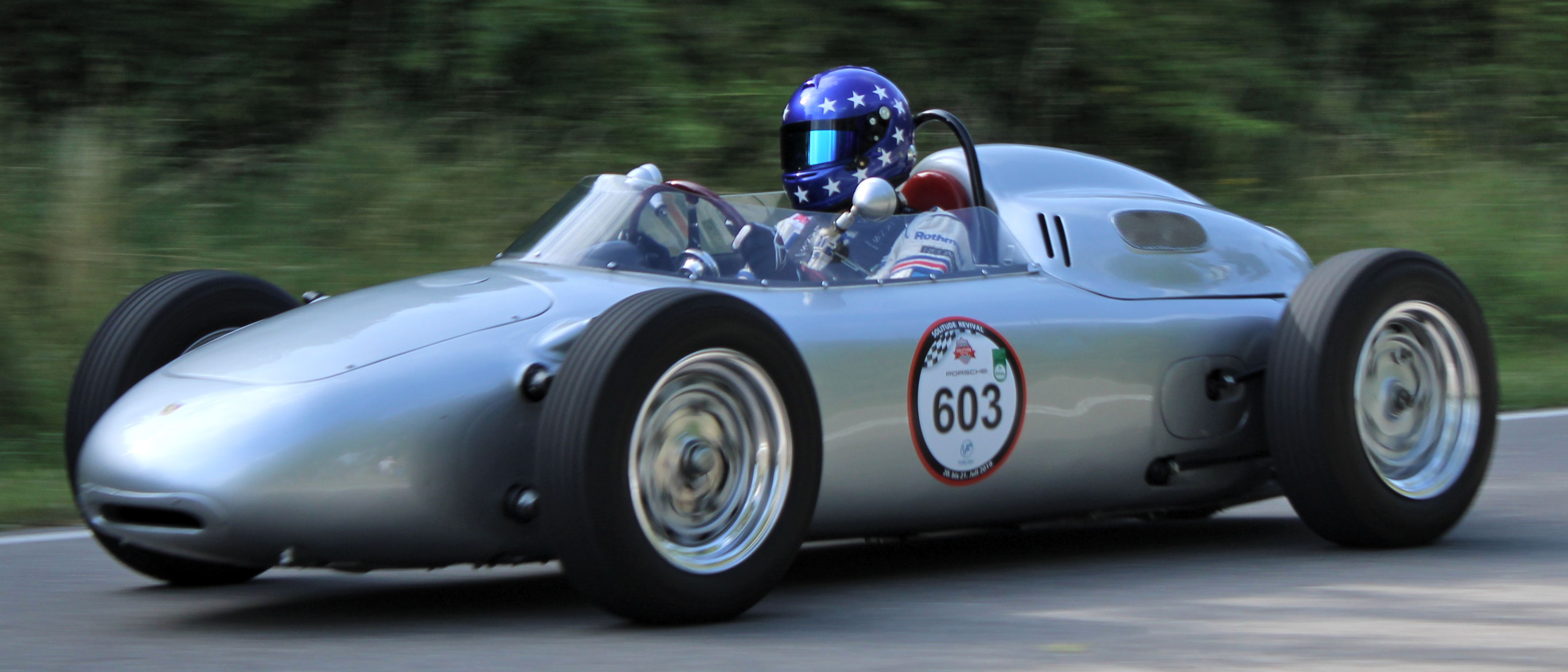 Porsche 718 Formel 2 (1960) at Solitude Revival 2019